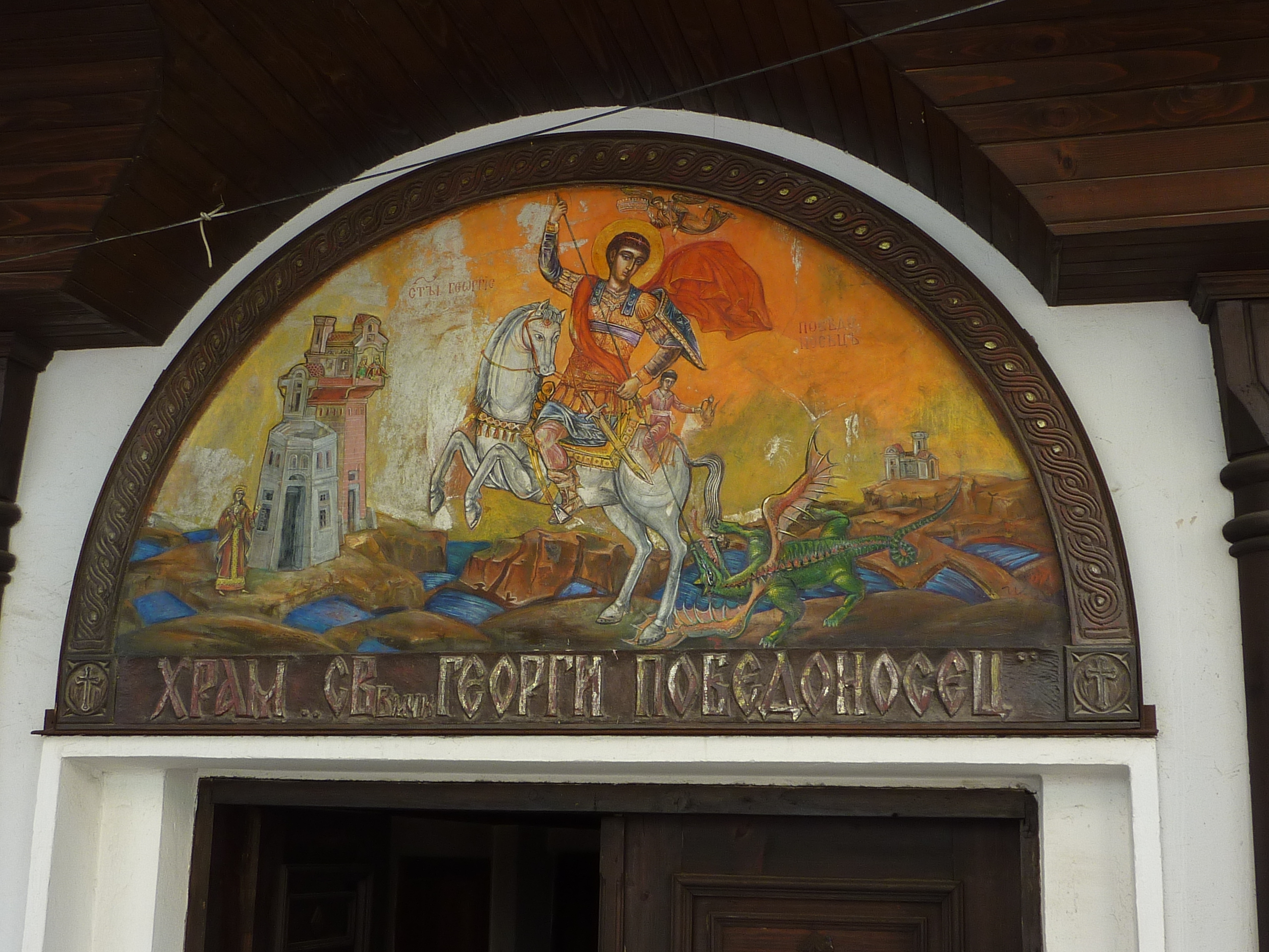 Church of Saint George in Sozopol.